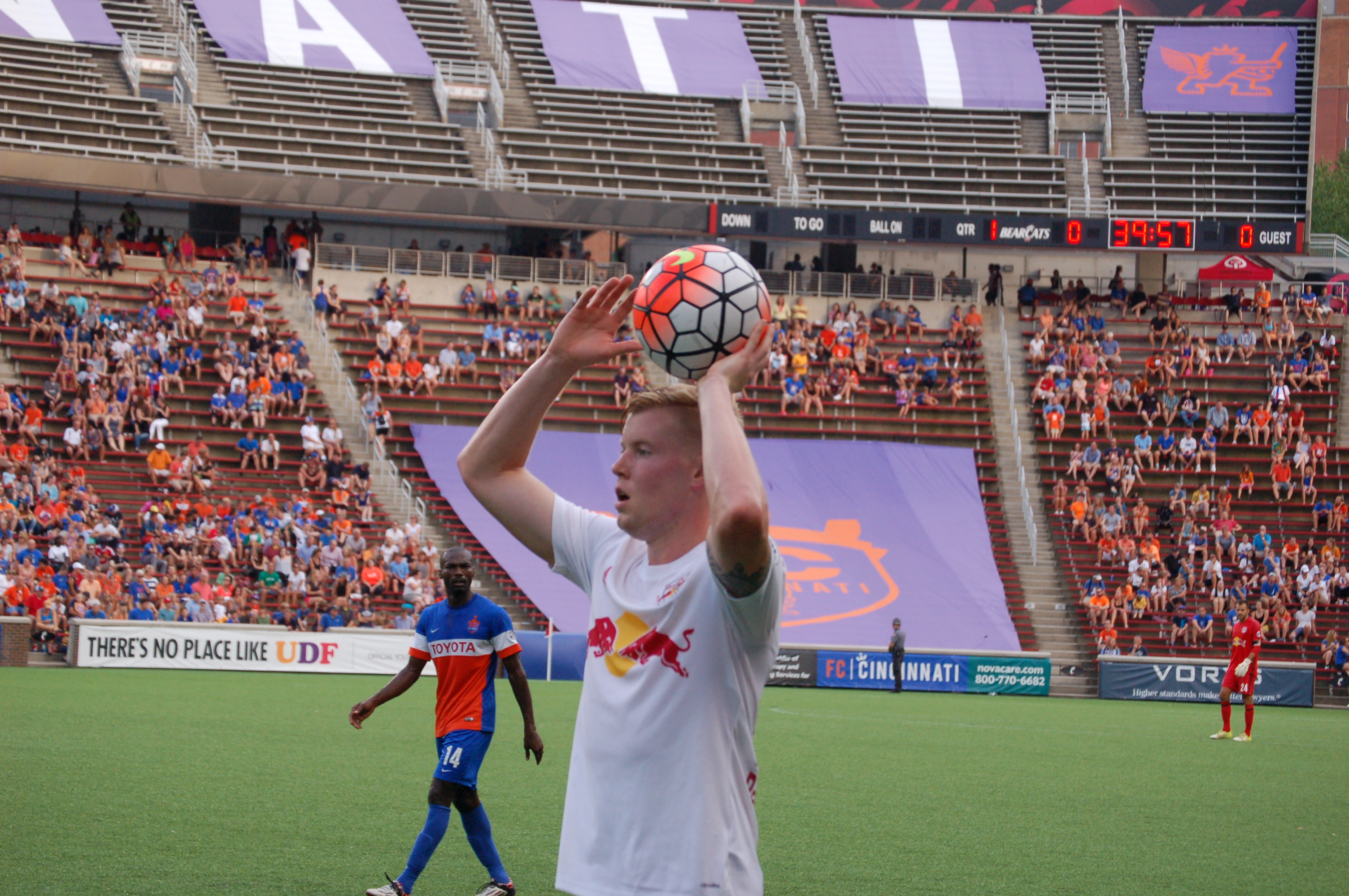 Justin Bilyeu (NY) Taken during a match between FC Cincinnati and New York Red Bulls II at Nippert Stadium in Cincinnati, USA on July 20, 2016.